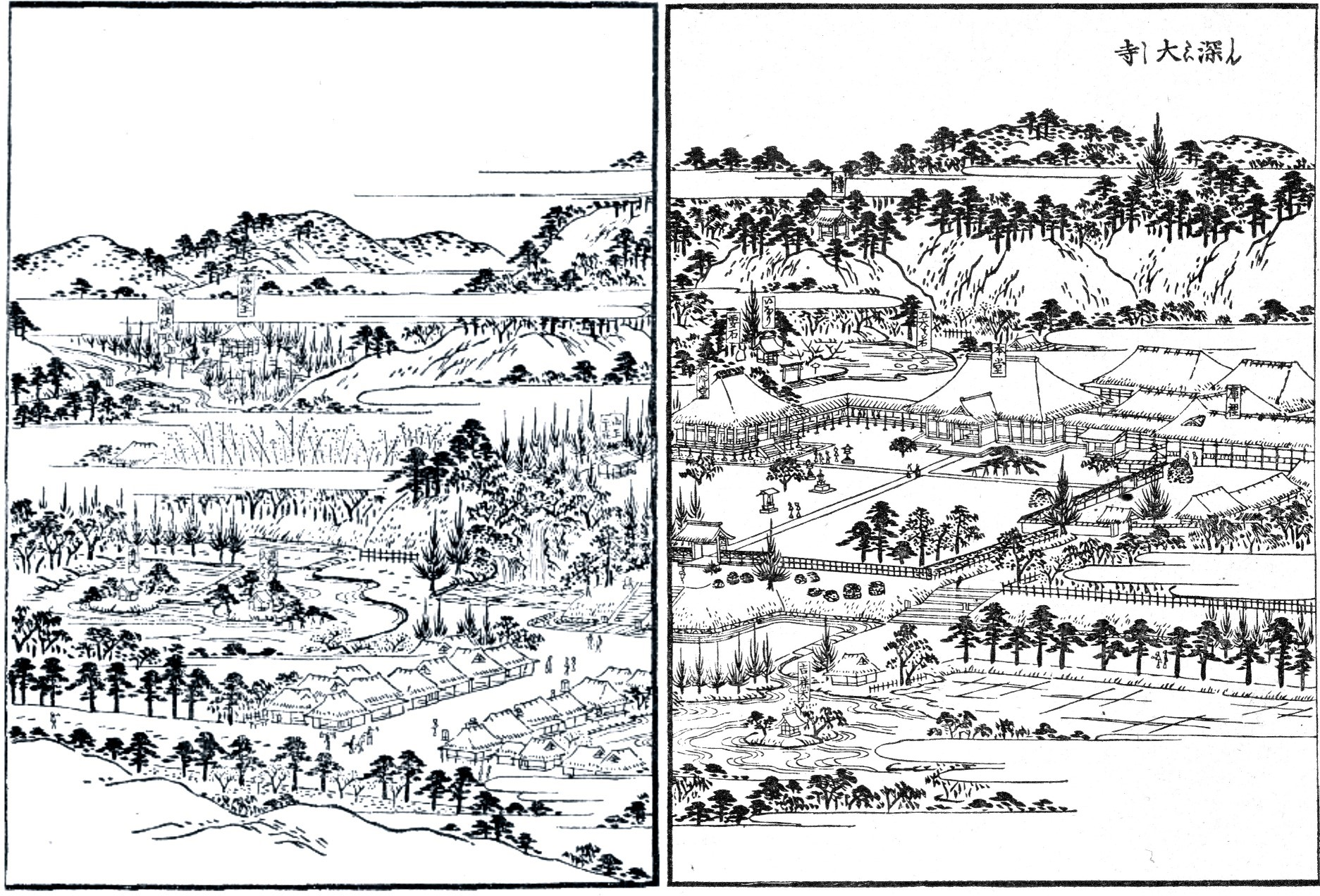 Old view on Jindaiji temple, Chôfu, Japan